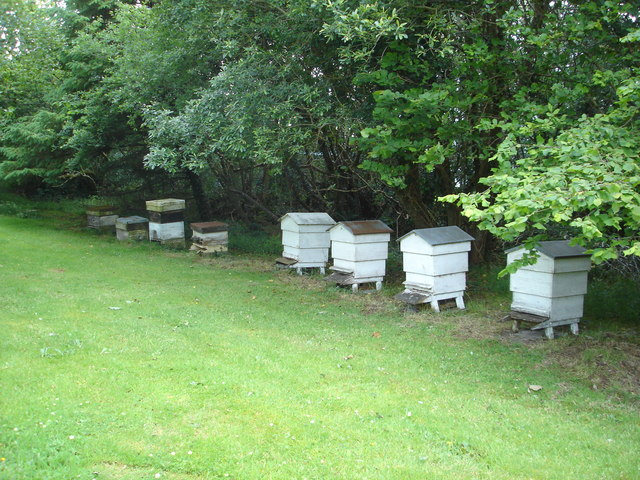 Apiary at the edge of the wood Various types of beehive in this apiary containing the popular Irish black honey bee.